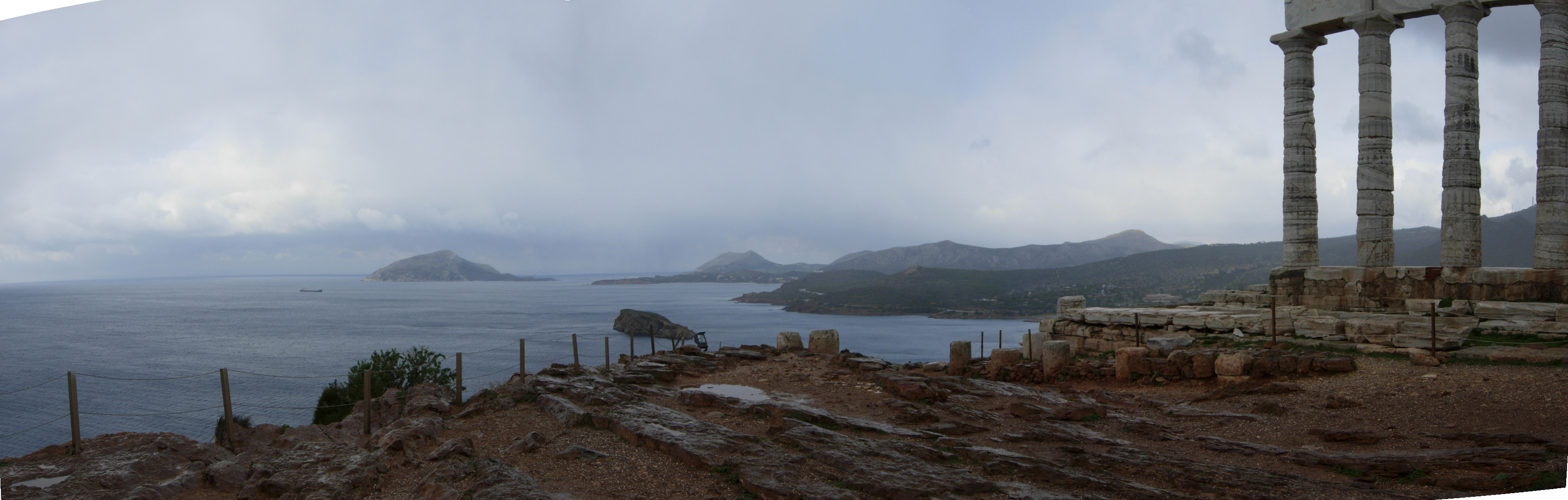 Sightseeing from Cape Sounion.